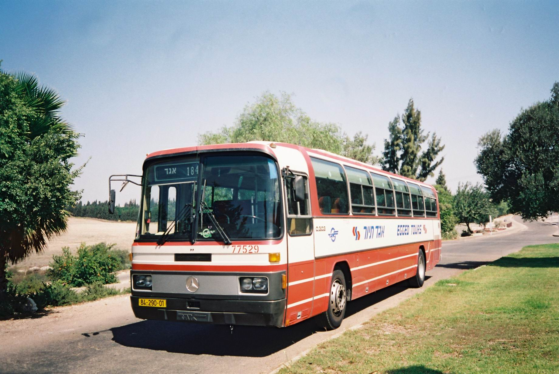 Transport in Israel